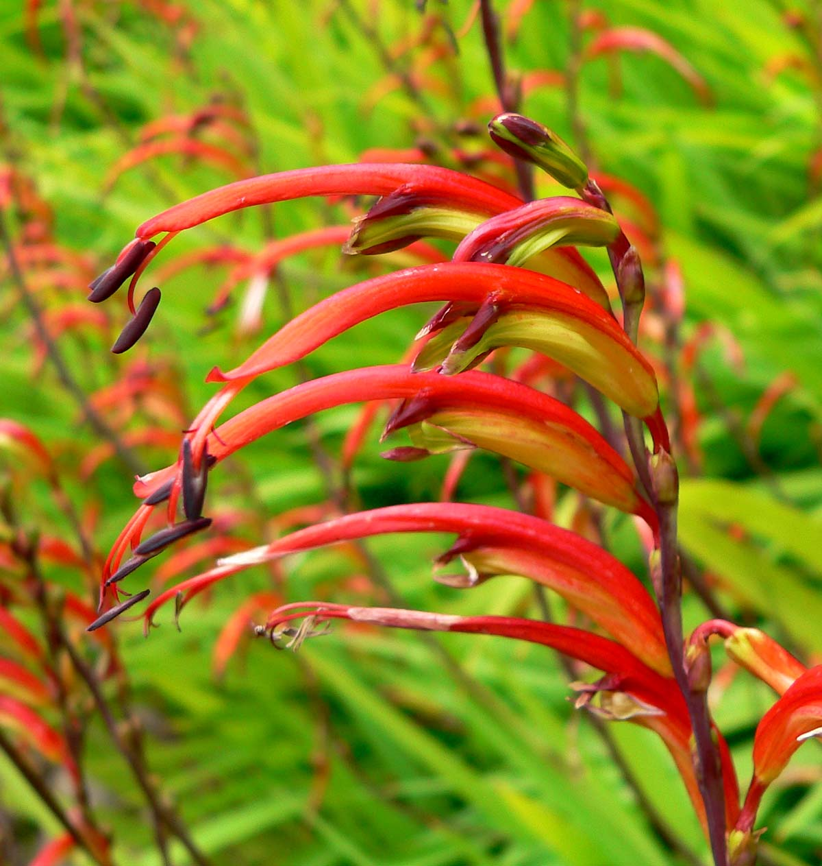 Photo of Chasmanthe floribunda at the University of California Botanical Garden